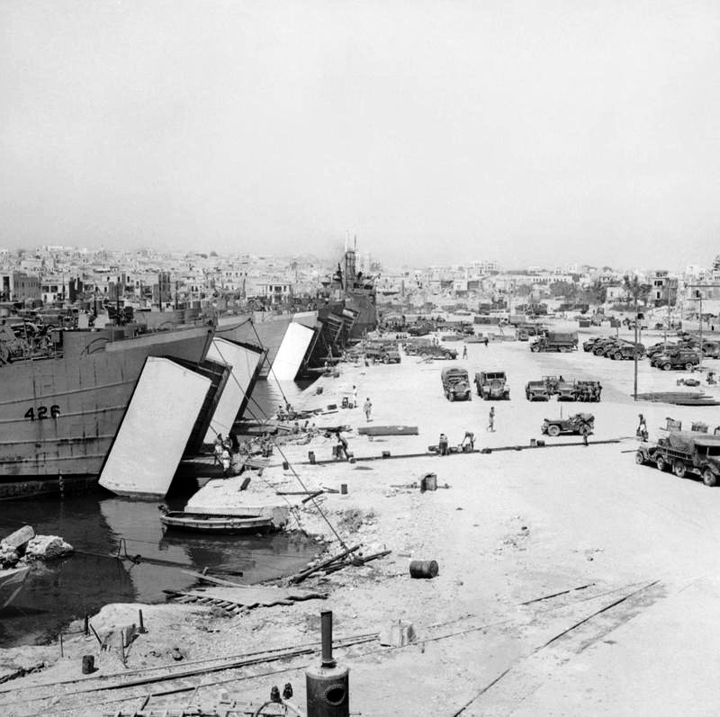 HM LST-426 and other LSTs, mid-1943 at the the dockside of Sousse Harbour, Tunisia. The ships are being loaded with vehicles and equipment in preparation for the invasion of Sicily. Imperial War Museum War Office Second World War Official collection, Photo No. © IWM (NA 3938)